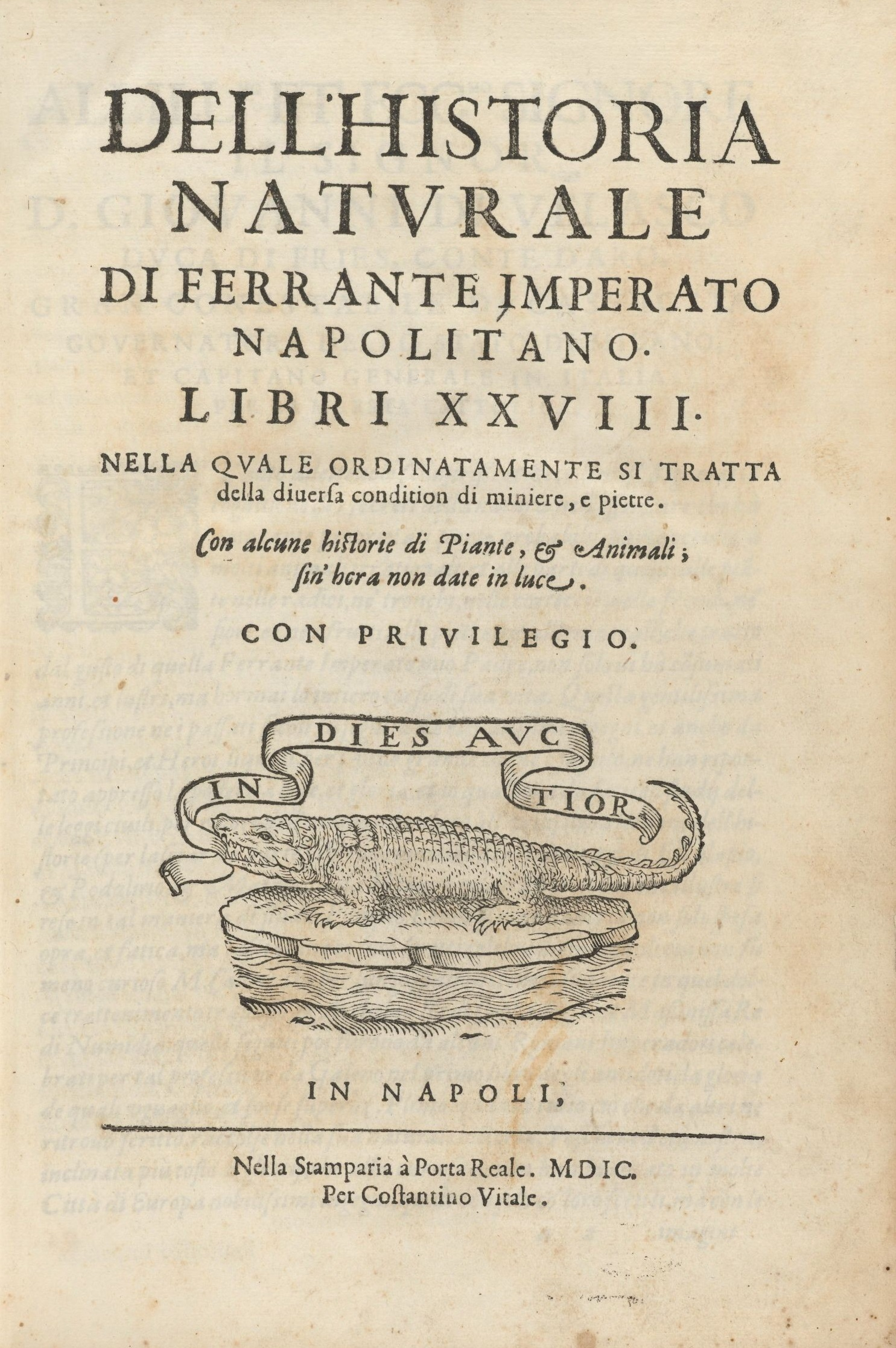 Title page of Dell’ historia naturale, Napoli, 1599, by Ferrante Imperato (1550-1625). Typ 525.99.461, Houghton Library, Harvard University